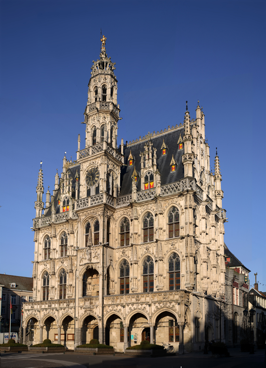 Town hall of Oudenaarde, Belgium